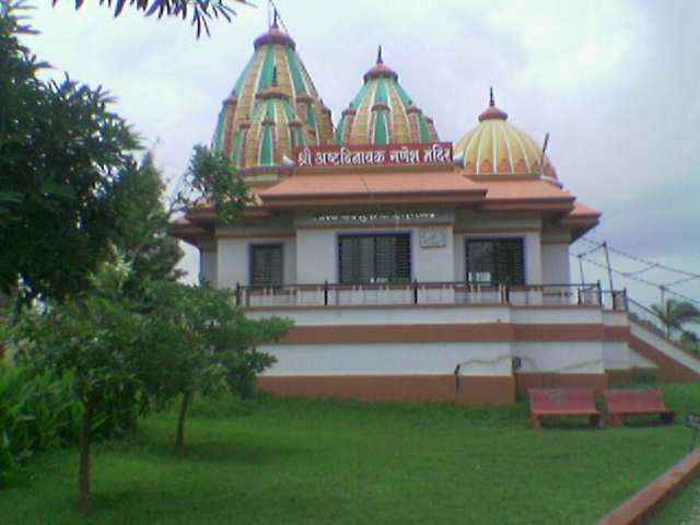 Very beautiful mandir in Damarkheda village situated on the bank of Gomai River and on Shahada-Prakasha road